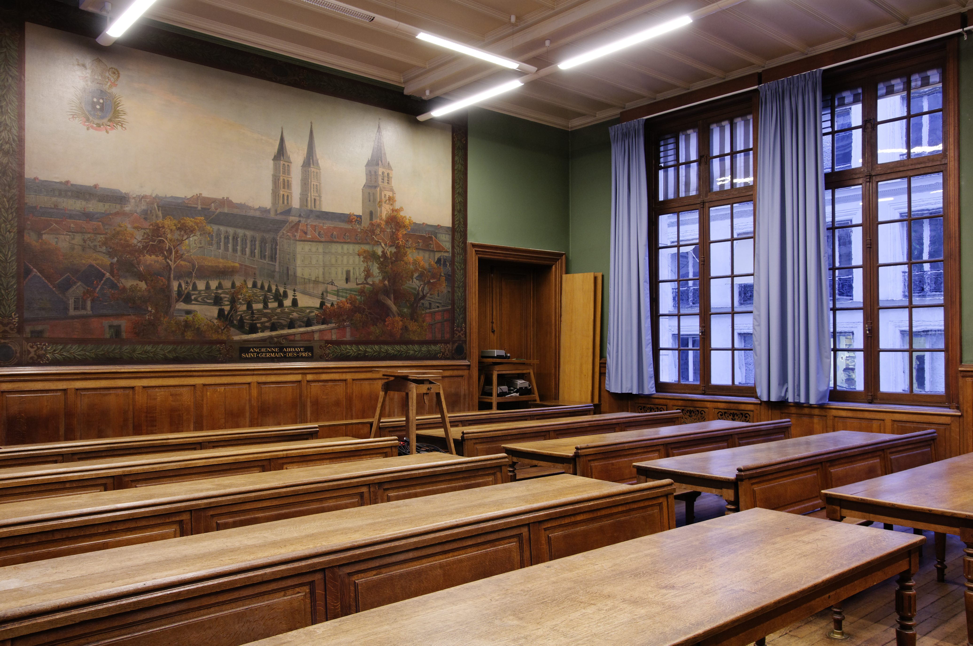 Main room of the École Nationale des Chartes, Paris.